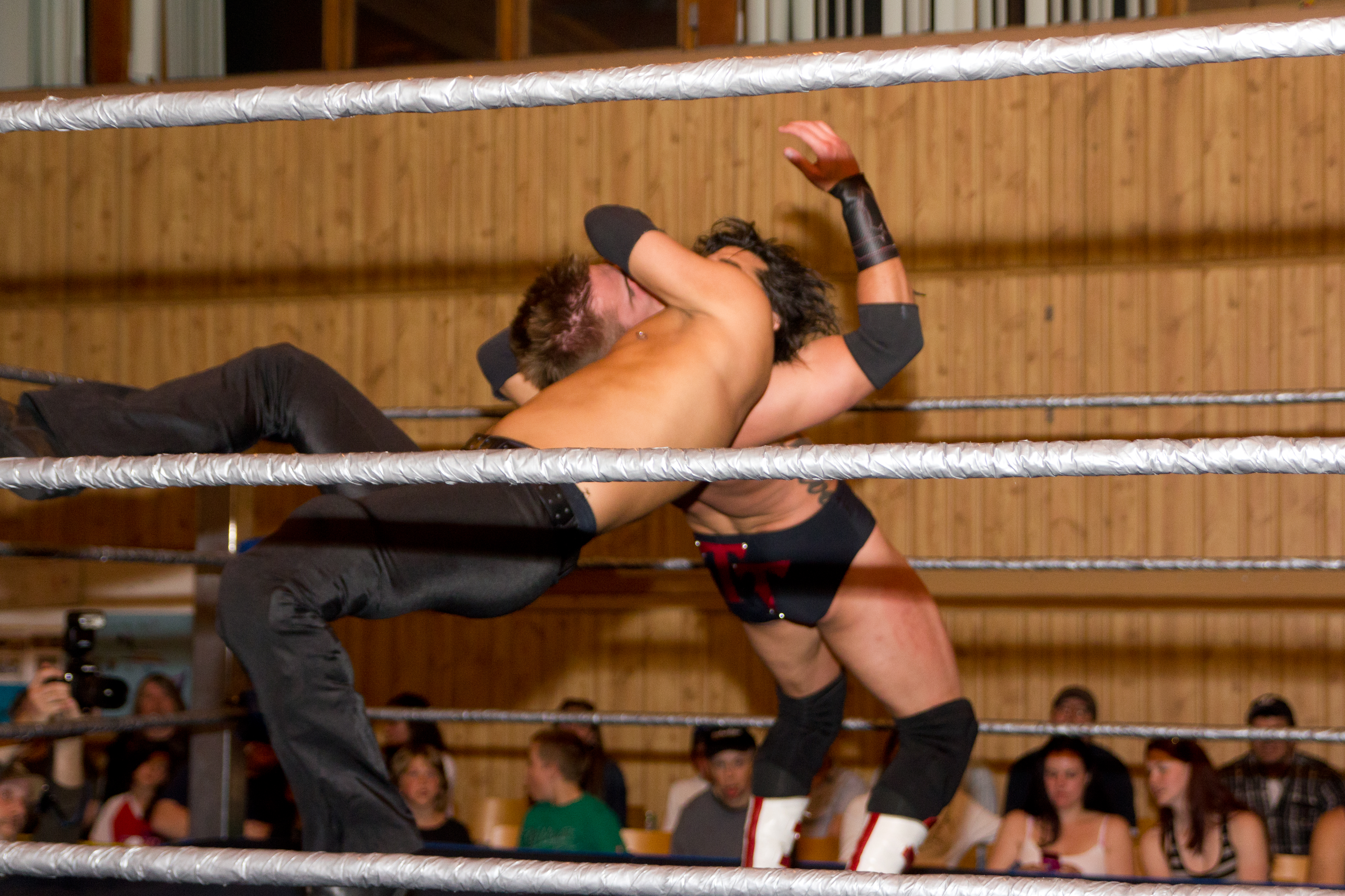 Jimmy Jacobs (in black pants) executing a Hangman's neckbreaker on Tyler Tirva at a Northern Lights Wrestling show in Barrie